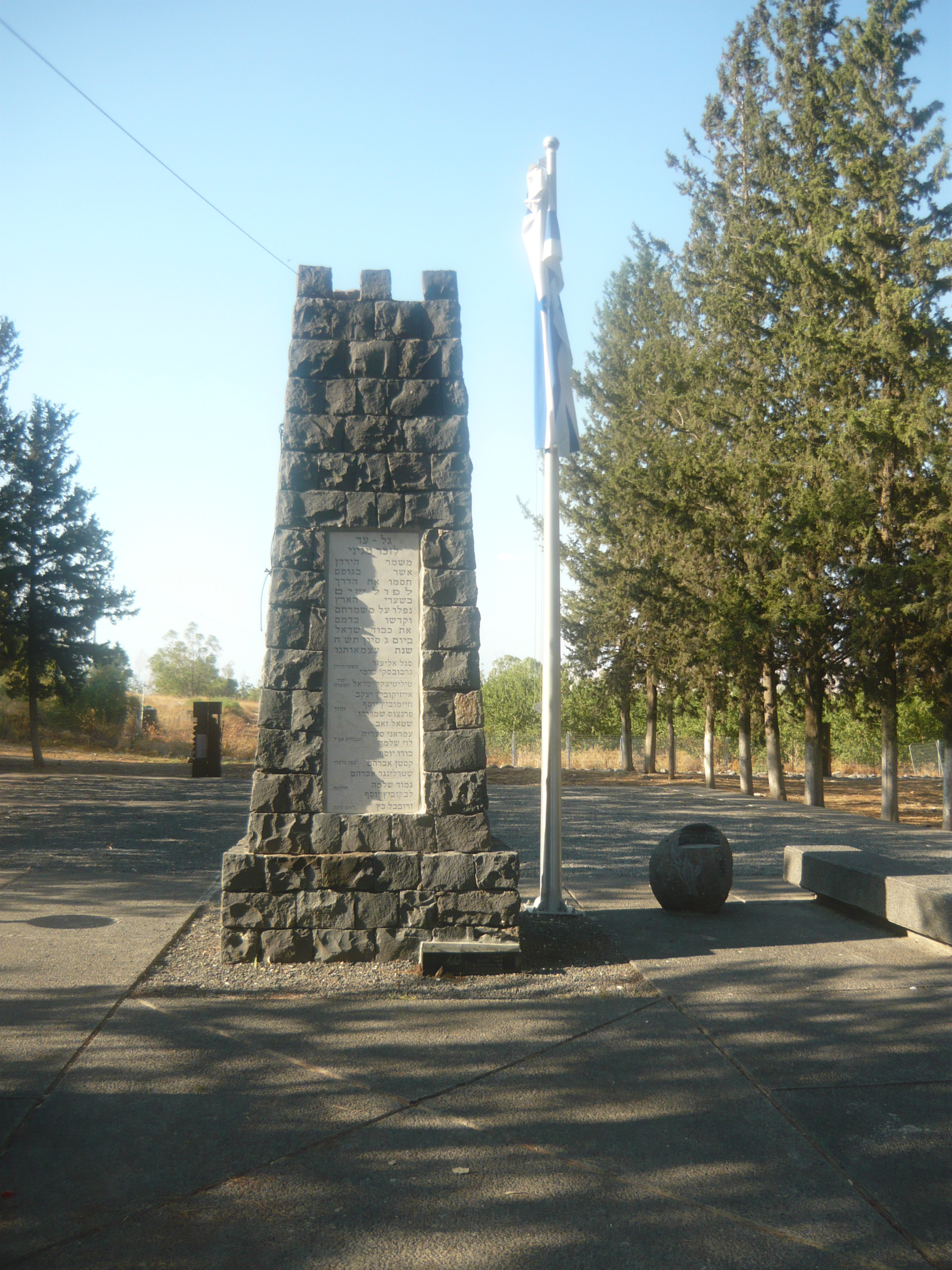 monument in ruins of mishmar hayarden settlement ruined in 1948 אנדרטה ללוחמים בהריסות המושבה משמר הירדן